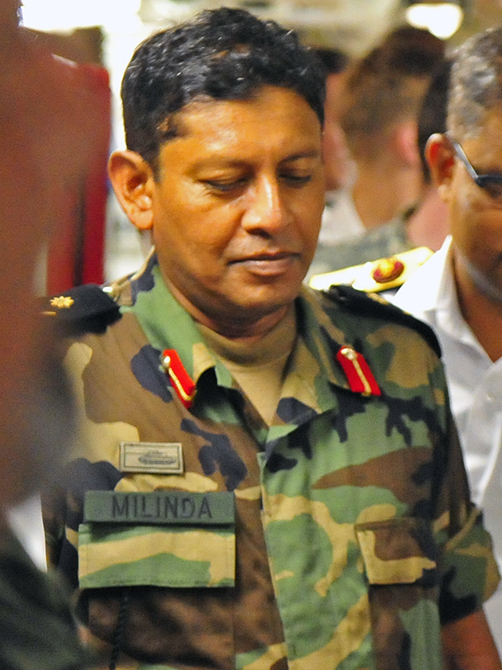 COLOMBO, Sri Lanka (March 26, 2016) Supply Officer, Lt. Williard Trefren, attached to the U.S. 7th Fleet flagship USS Blue Ridge (LCC19), conducts a gift exchange near the post office with U.S. Ambassador to Sri Lanka and Maldives, Atul Keshap, Commander of Sri Lankan Air Force, Air Marshal Gagan Bulathsinghala, Commander of Sri Lankan Navy, Vice Adm. Ravi Wijegunaratne, Chief of Defense Staff, Air Chief Marshal Kolitha Goonetilleke, Chief of Staff of Sri Lankan Army, Maj. Gen. Milinda Peiris, Sri Lankan Navy Director of General Operations Rear Adm. DMD Wettewa, U.S. Embassy Worker Lt. Cmdr. Dave Chesson and Rear Adm. Travis Sinniah. Blue Ridge is conducting a regularly scheduled port visit during its patrol of the 7th Fleet area of operations, strengthening and fostering relationships in the Indo-Asia-Pacific region. (U.S. Navy photo by Mass Communication Specialist Seaman Timothy Hale/ RELEASED)